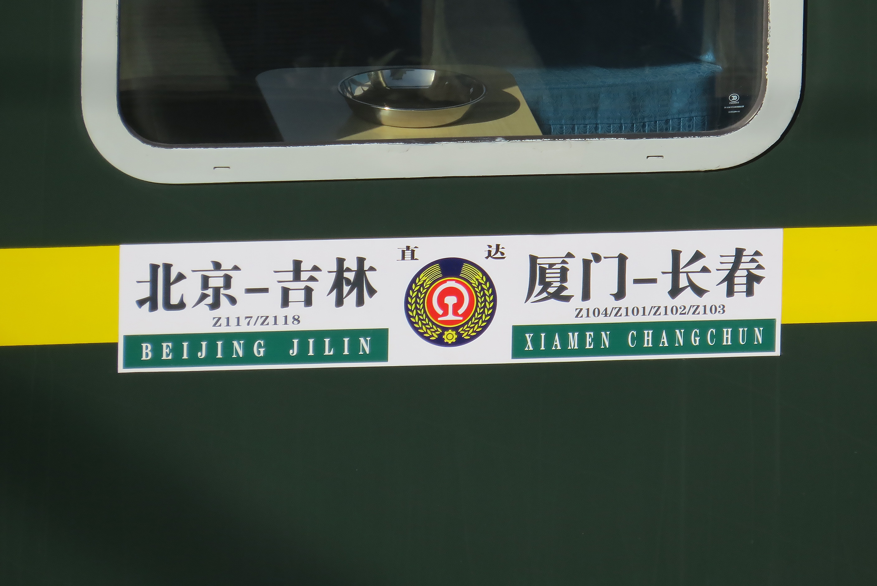 Sequence: Changchun -0T5315- Jilin -Z118- Beijing -0Z117- somewhere else -0Z118- Beijing -Z117- Jilin -0T5316- Changchun -Z102- Xiamen -Z104- Changchun.